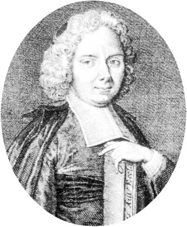 Louis Ellies Dupin, contemporary portrait